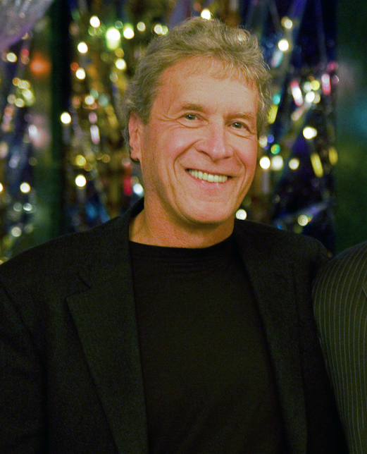 John Perkins at a Hudson Union Society event in November 2009.